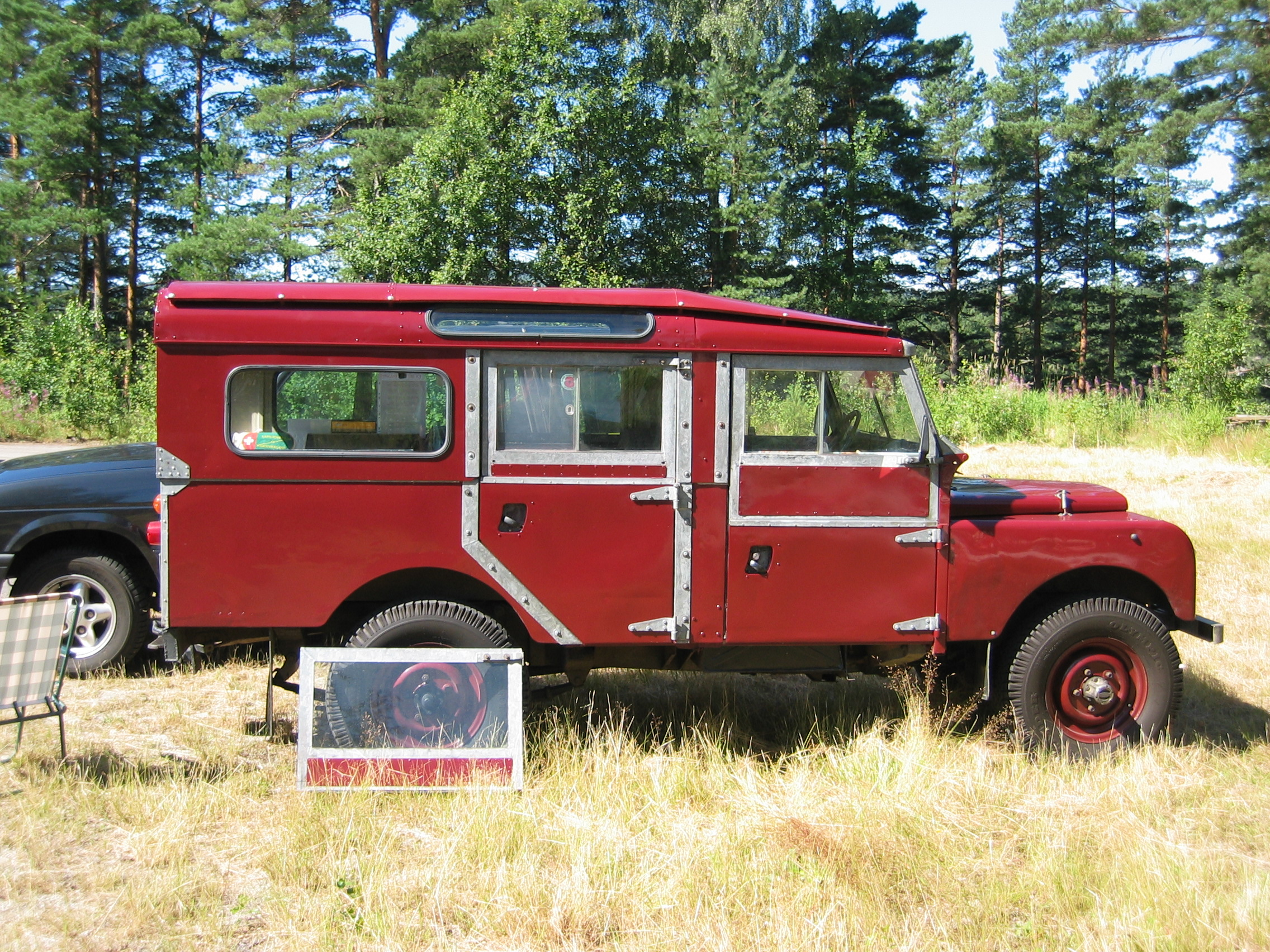 Land Rover Series I 107" Station Wagon in Evje, Norway on the Norwegian Land Rover Club's 30th anniversary meet on 2005-08-02. The plaque in the vehicle window states that the vehicle was sold from the LR factory to the British Transport Comission, British Railways' purchasing agency. It was sprayed red and spent much of it's working life on the North Wales Railway. Camera: Canon Powershot S45